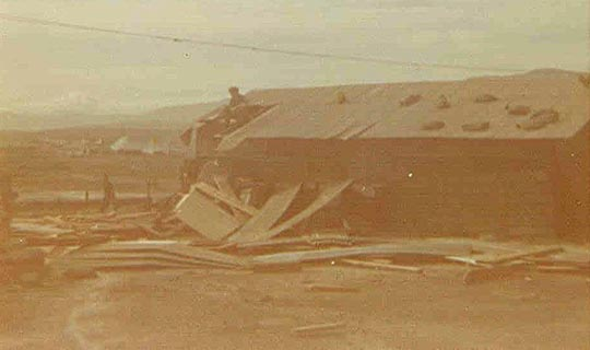 Damage at Camp Evans in Vietnam in the wake of Typhoon Hester